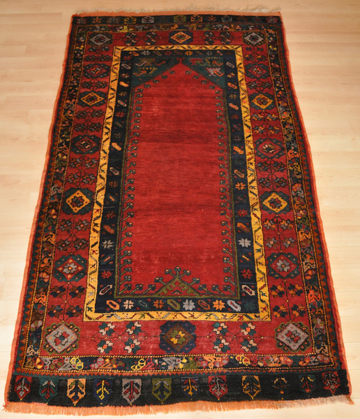 Vintage Konya Prayer Seccade. CL Lane Collection Photo: Jan Cadoret